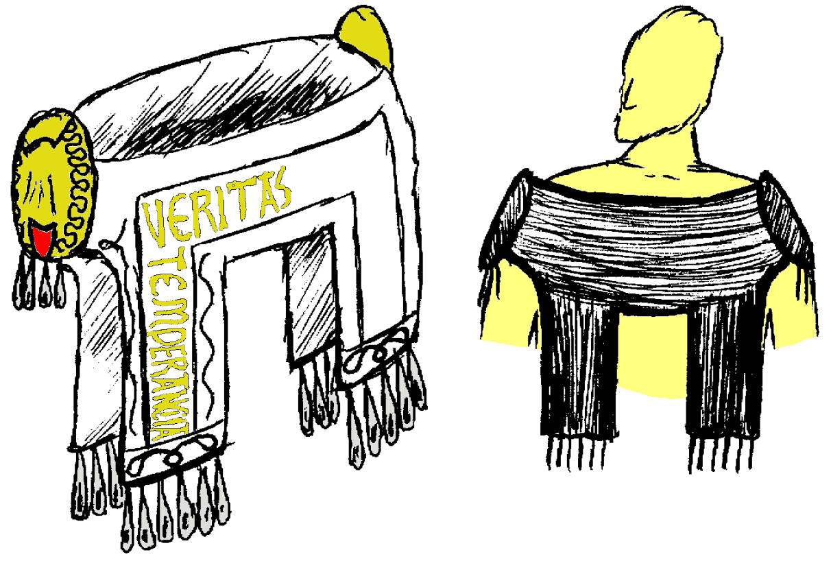 Rationale (Eichstätt)